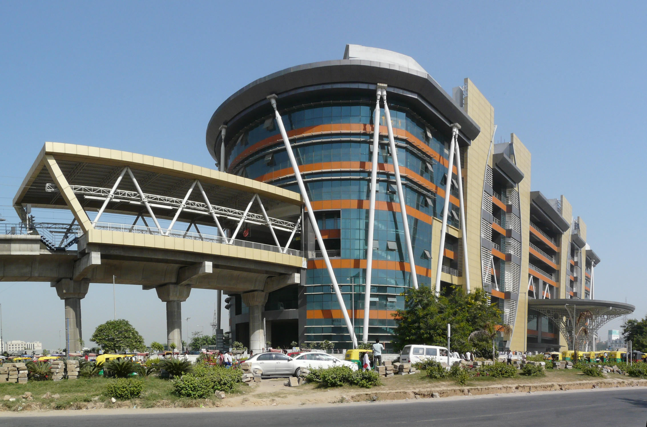 HUDA City Center station, the terminal station on the Yellow Line of Delhi Metro in Gurgaon, Haryana.